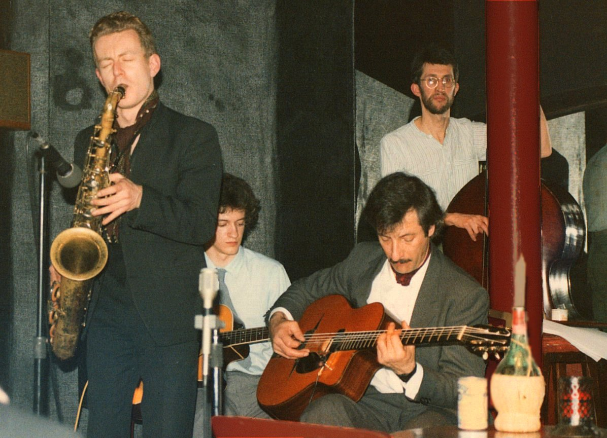 Ian Cruickshank's Gypsy Jazz performing at the Pizza Express, London, 1986 (Tony Rees photograph)